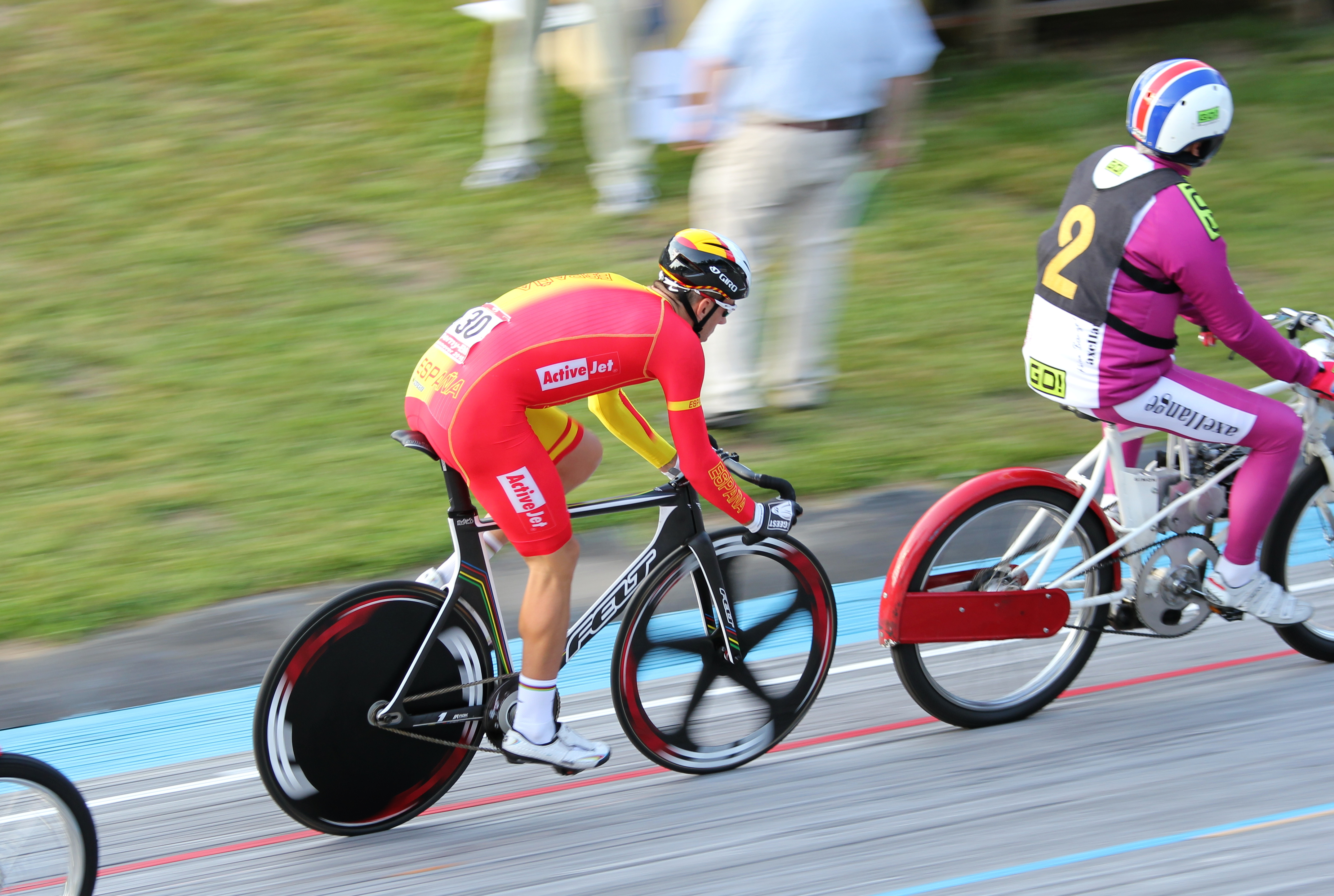 UEC Derny European Championship 2015 - 2nd heat, 60 laps / 20 km, Rider: David_Muntaner (Spain), Pacer: Peter Bäuerlein (Germany)